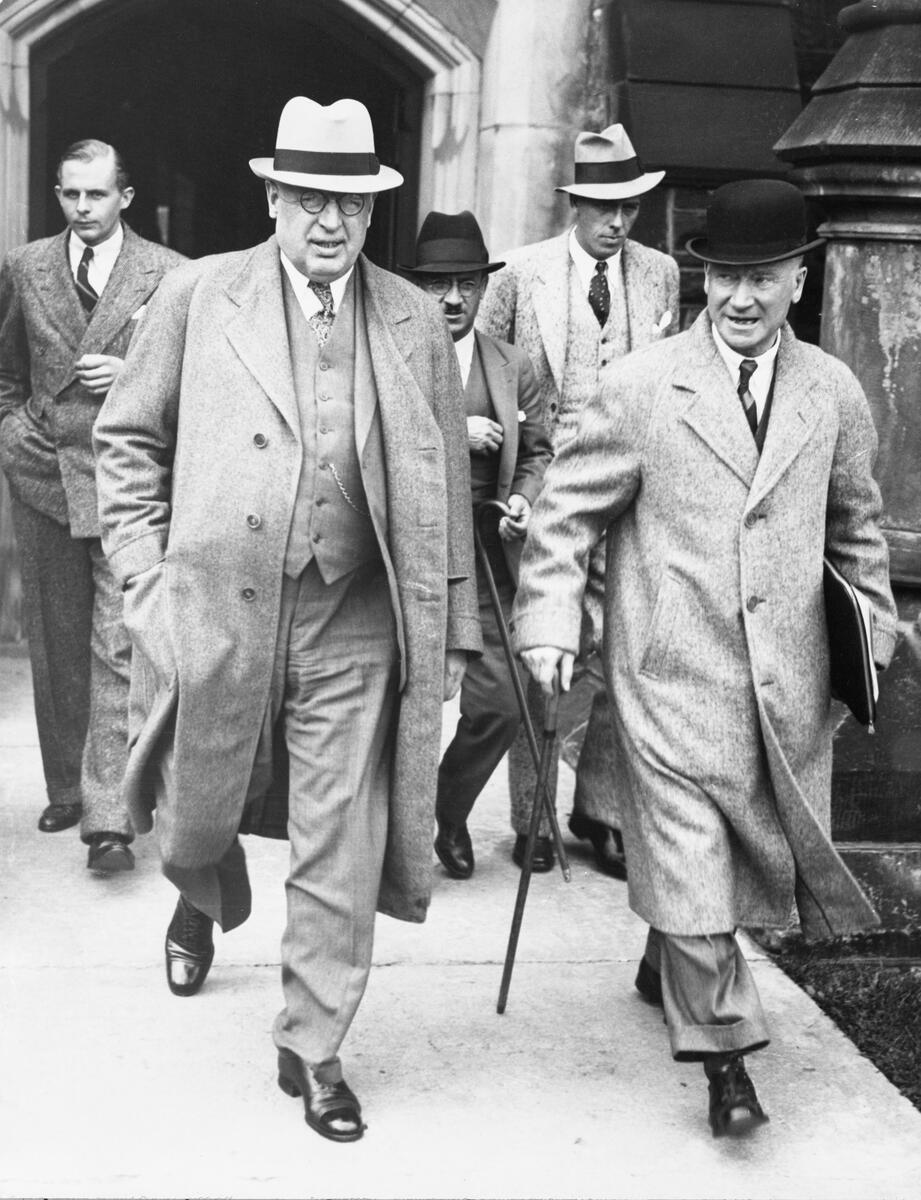 Alberta Premier William Aberhart and his Attorney-General John Hugill during a visit to eastern Canada.